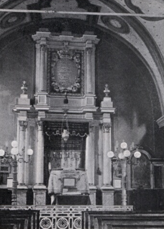 Mladá Boleslav, synagogue, Torah Ark